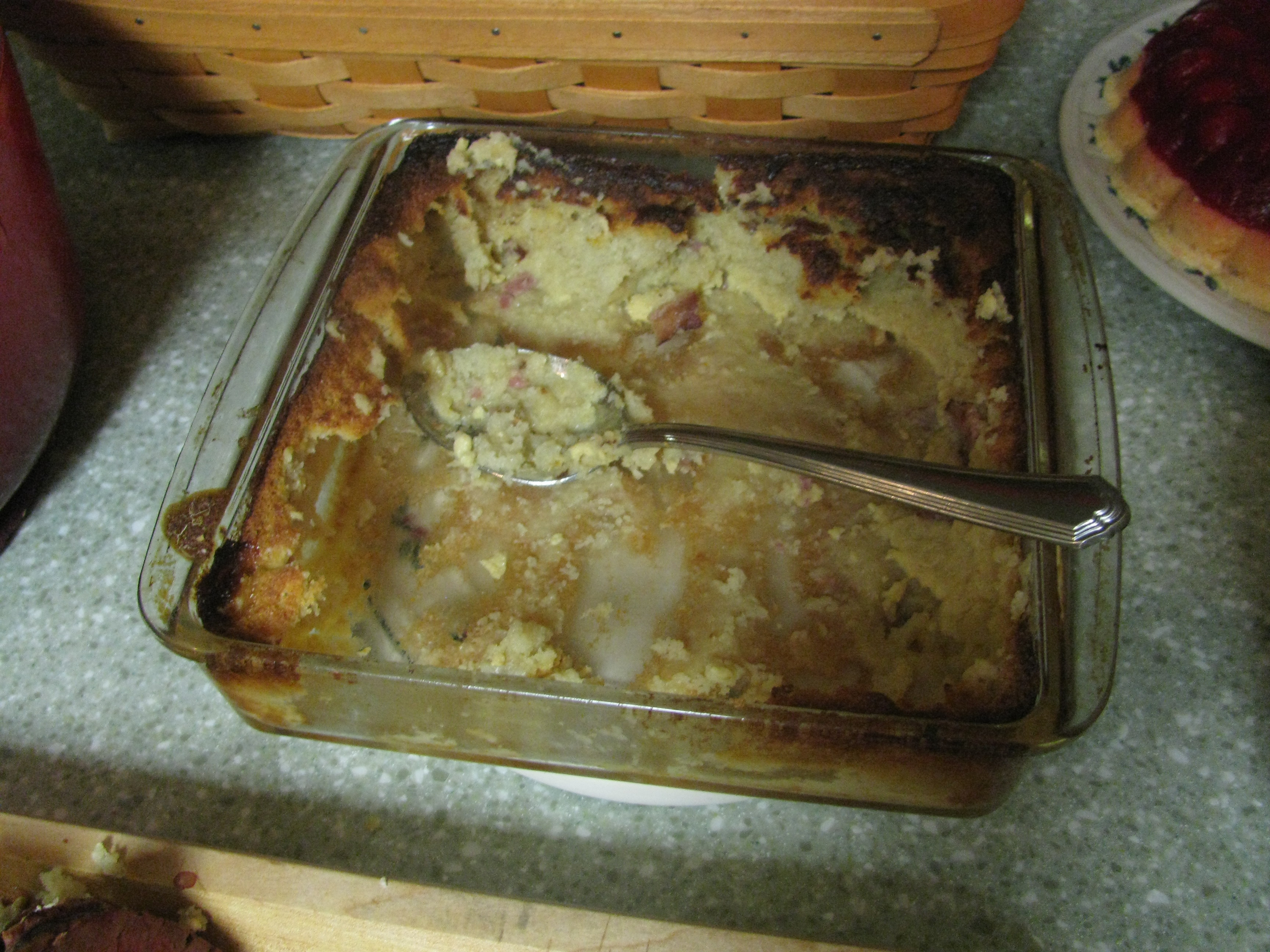 I think it was mostly Ted and I who consumed the kugelis.